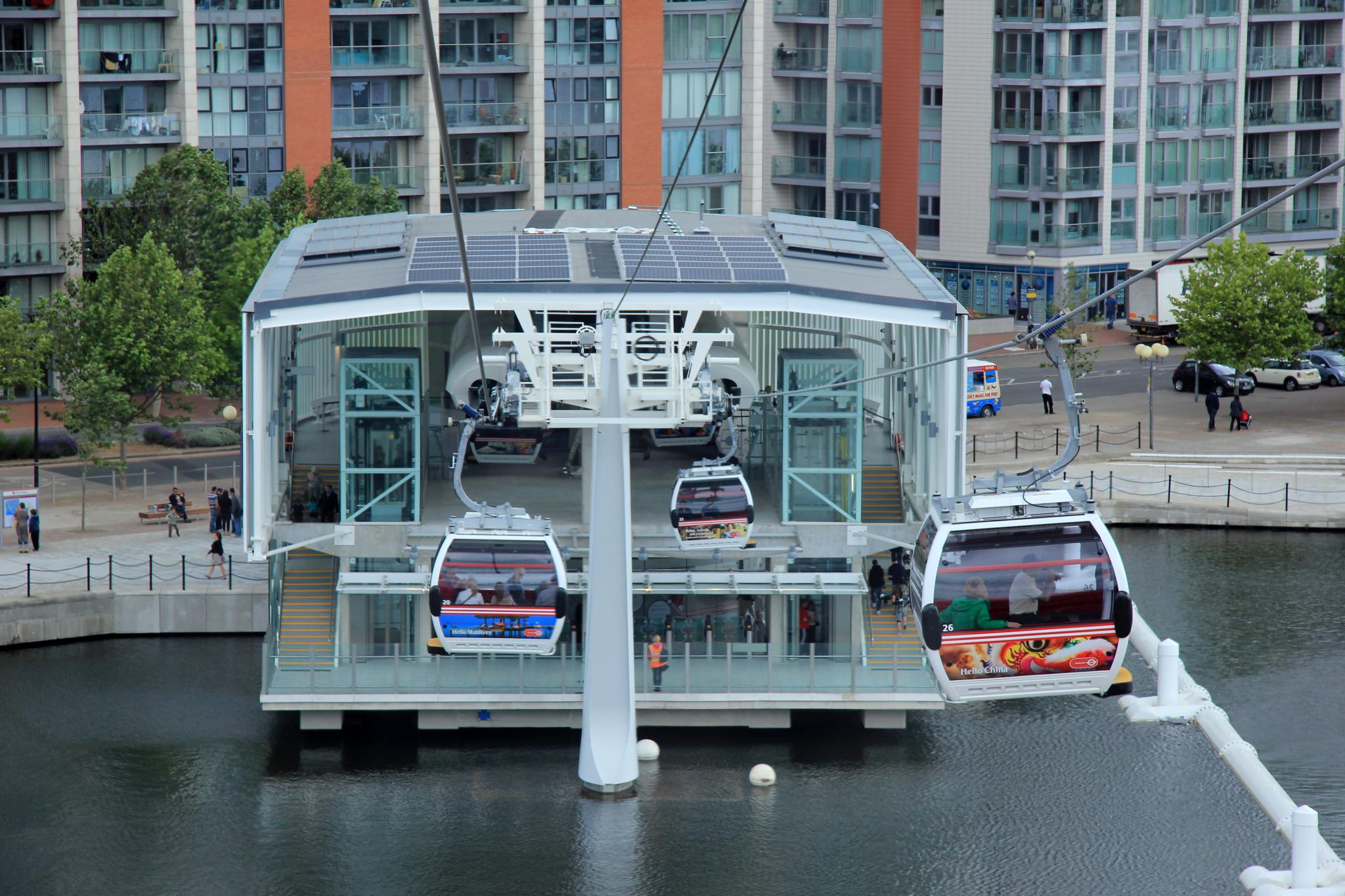 The new Thames cable car, spanning the river, opened to the public on 28th June 2012. The Emirates Air Line links the O2 Arena in Greenwich, south-east London, with the ExCel exhibition centre at the Royal Docks in east London. The service can carry 2,500 people an hour. A single adult fare on the pay-as-you-go Oyster card will cost £3.20 while the cash fare is £4.30. But the fares are not included in travelcards or Oyster capping. The service will operate through the week from 07:00 until 21:00. The gates will open an hour later on Saturdays while the service will run from 09:00 on Sundays. Passengers will also be able to make a non-stop round trip on the cable car, with views of the City, Canary Wharf, the Thames Barrier and the Olympic Park, at a cost of £6.40 with Oyster. But Transport for London said a one-way journey at peak time will be between four and five minutes long, but off-peak the same journey will last about 10 minutes. The Dubai-based airline Emirates is sponsoring the cable car for 10 years at a cost of £36m. The total cost of the project is about £60m, £45m of which went towards building it. Mayor of London Boris Johnson called it a "stunning addition to London's transport network" and a "must-see destination in its own right". "We said we could deliver this travel link in quick time, and today we have shown that this city is capable of attracting serious investment to deliver world class infrastructure. As the world's eyes focus on our city, I can think of no better message to send out across the globe."